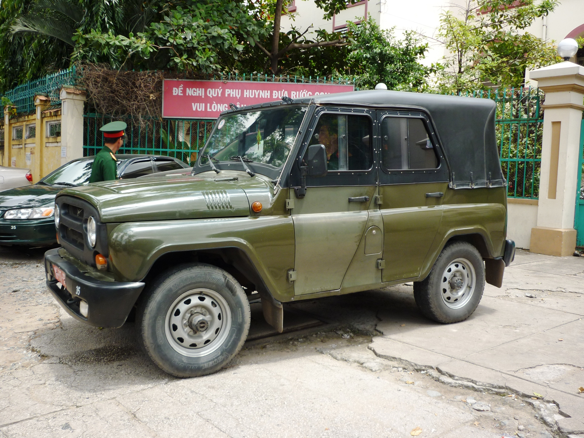 UAZ-469 in Ho Chi Minh City, Vietnam